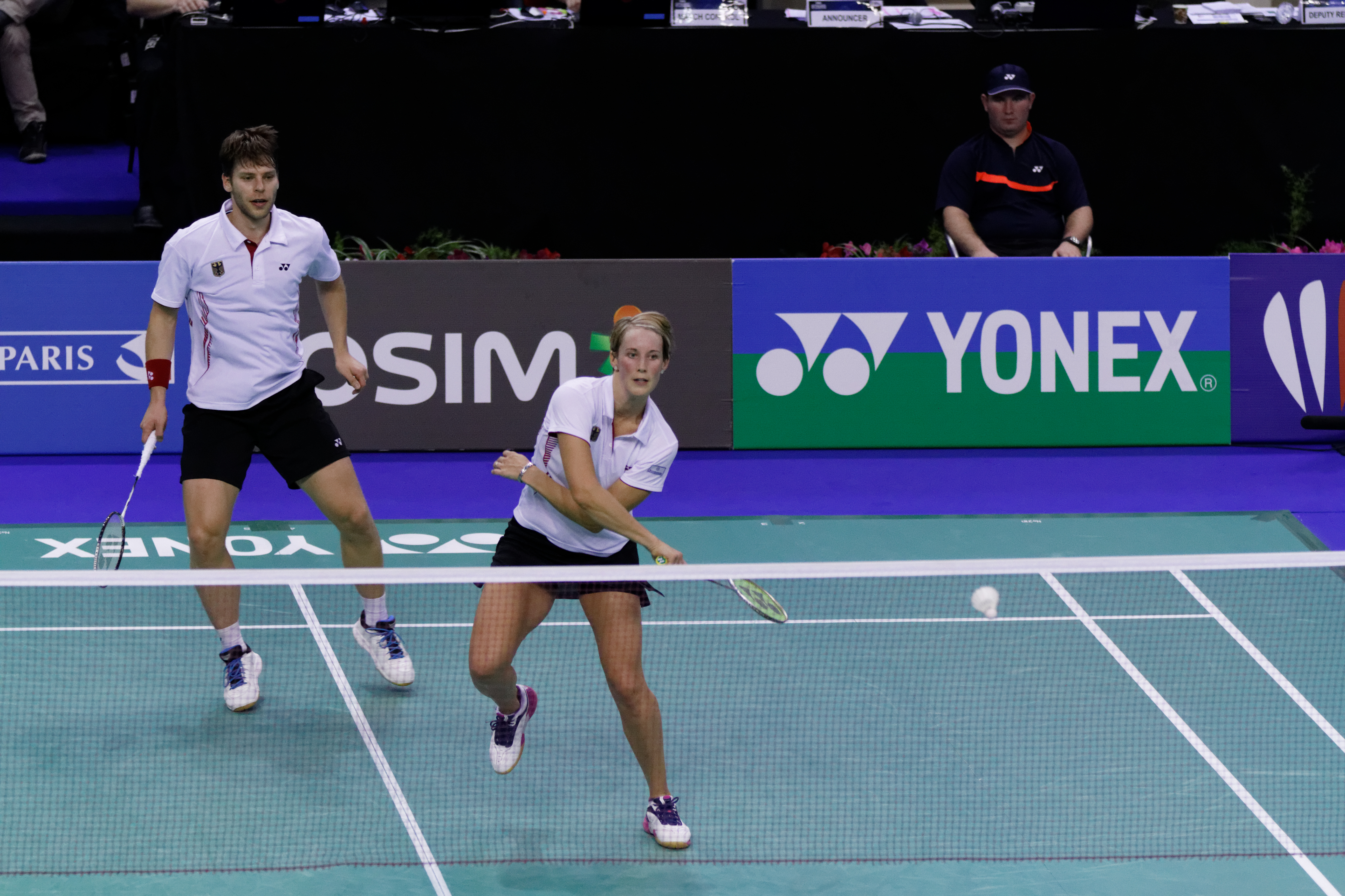 2013 French open. Mixed's doubles eightfinal. Michael Fuchs and Birgit Michels vs Sudket Prapakamol and Saralee Thungthongkam.